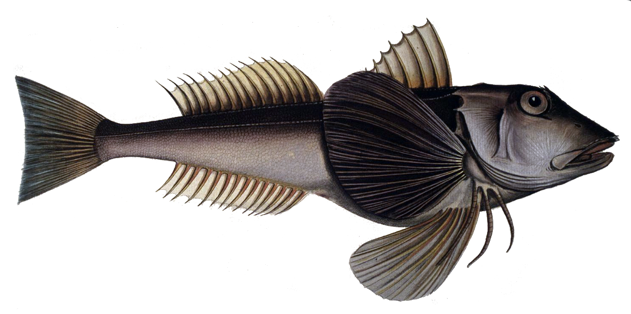 Chelidonichthys lucerna